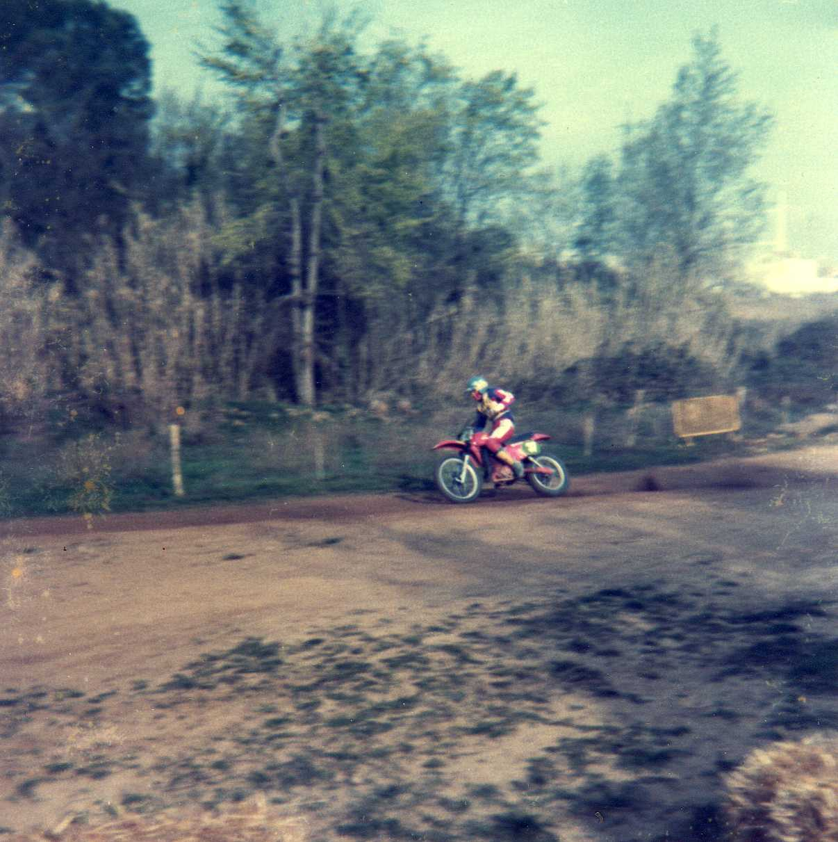 Patrick Boniface (Honda) at Circuit del Vallès, Sabadell-Terrassa (Catalonia), during the 1979 spanish MX GP 250cc.